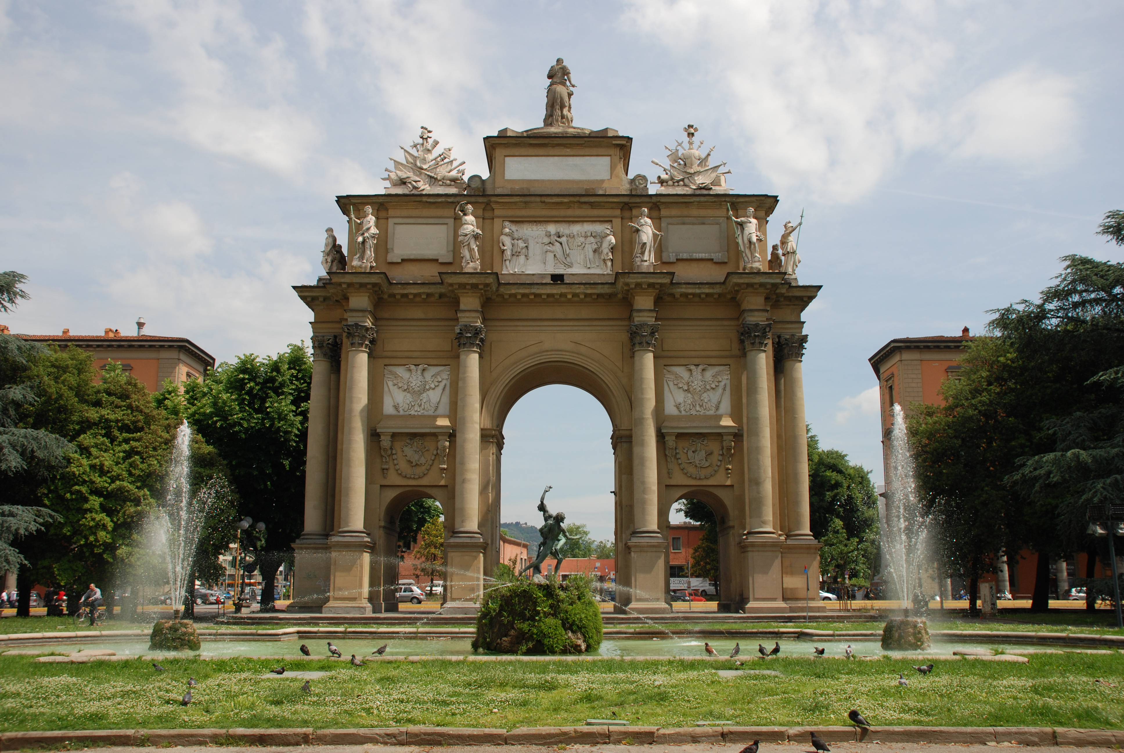 An arch found in a park in Florence, Italy.